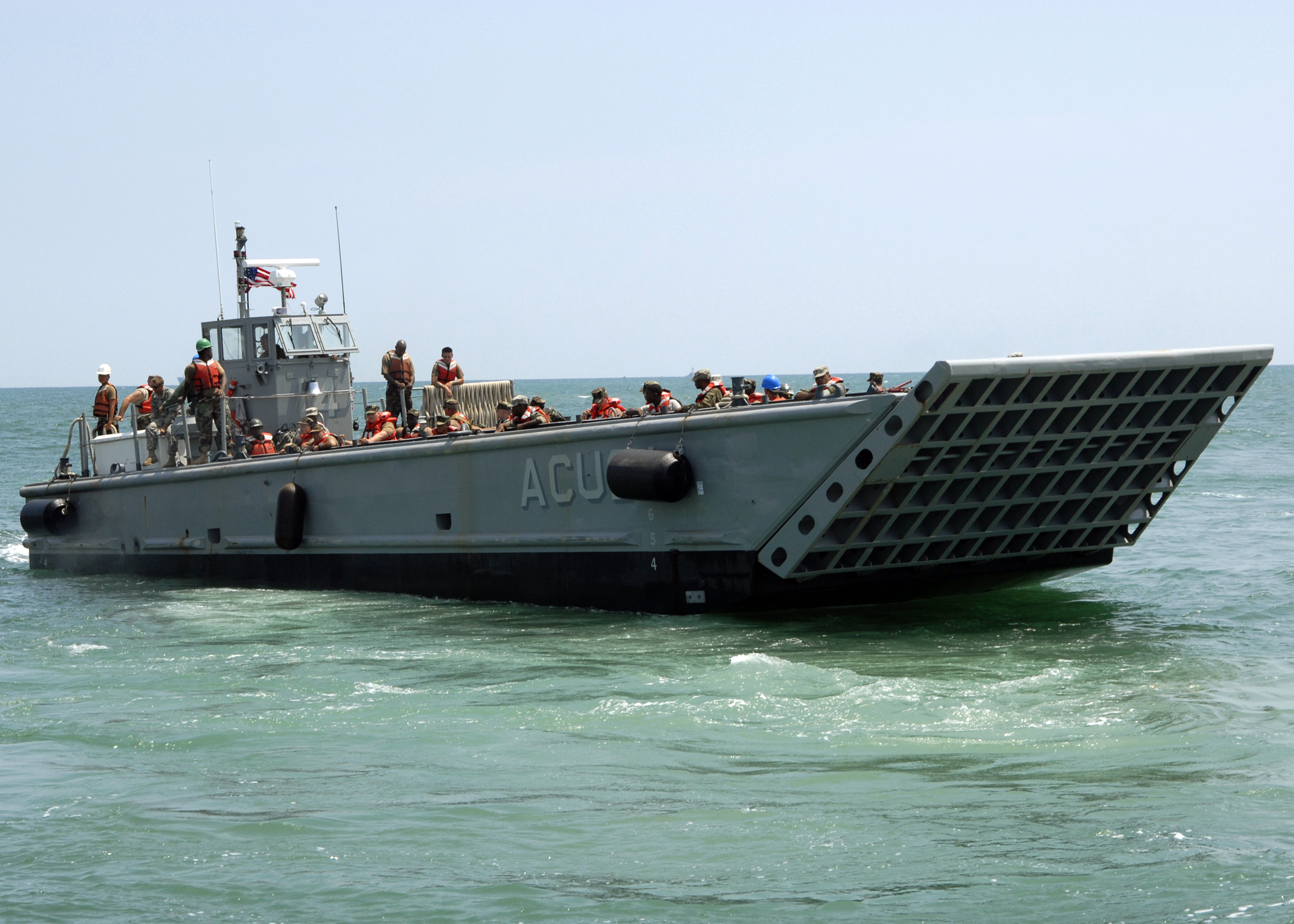 CAMP LEJEUNE, N.C. (June 15, 2009) Landing Craft Mechanized (LCM) 14, assigned to Assault Craft Unit (ACU) 2, transports Sailors, Soldiers and Marines during operations supporting Joint Logistics Over-The-Shore (JLOTS) exercises. JLOTS is a joint operation that consists of loading and unloading ships without fixed port facilities, in friendly or non-defended territories. (U.S. Navy photo by Mass Communication Specialist 2nd Class John Stratton/Released)